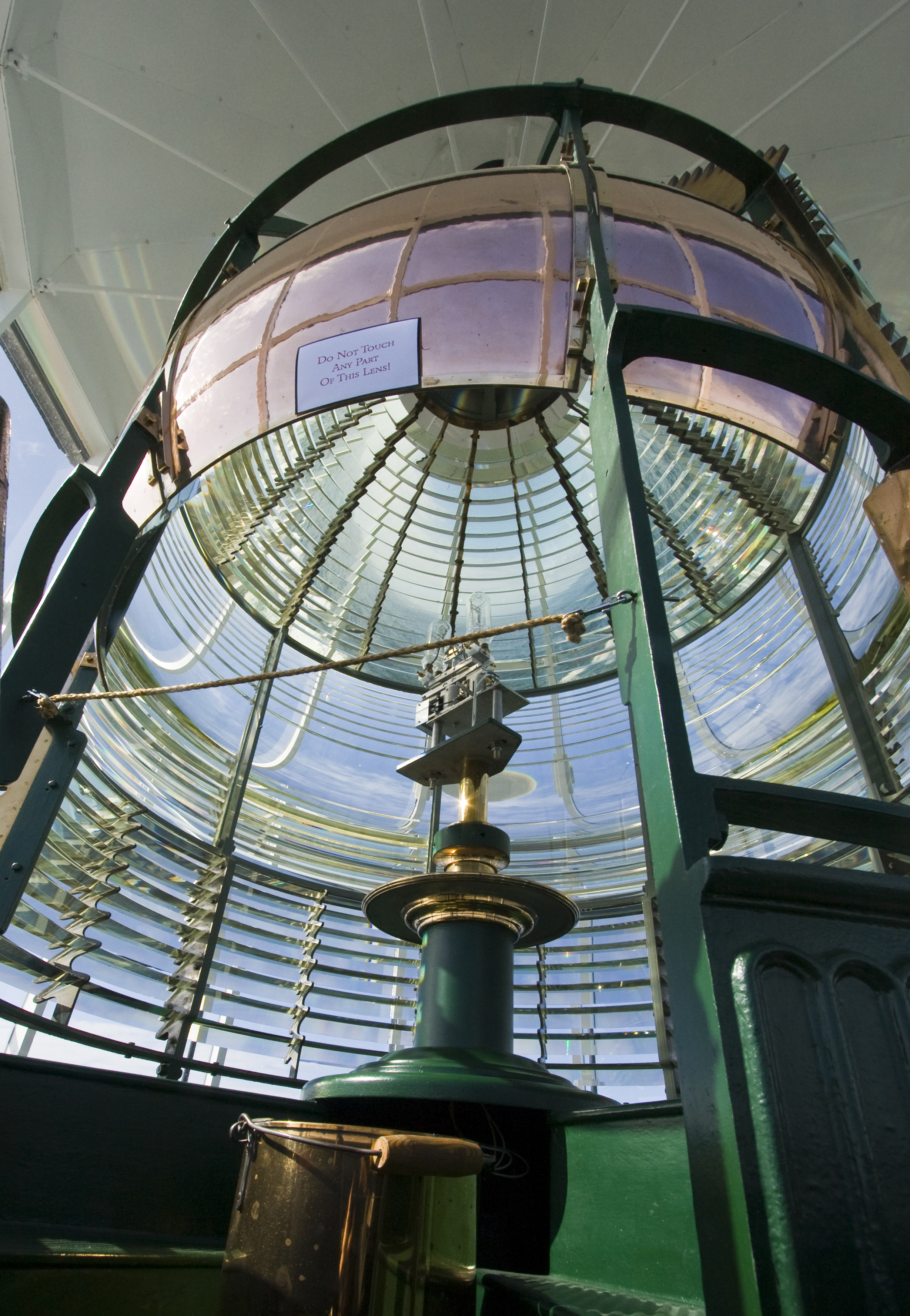 First order Fresnel lens at Yaquina Head Lighthouse near Newport, Oregon, USA